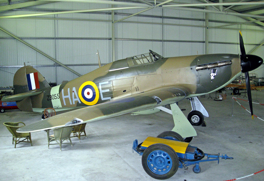 Hawker Hurricane Z3055 at the Malta Aviation Museum at TaQali in 2007